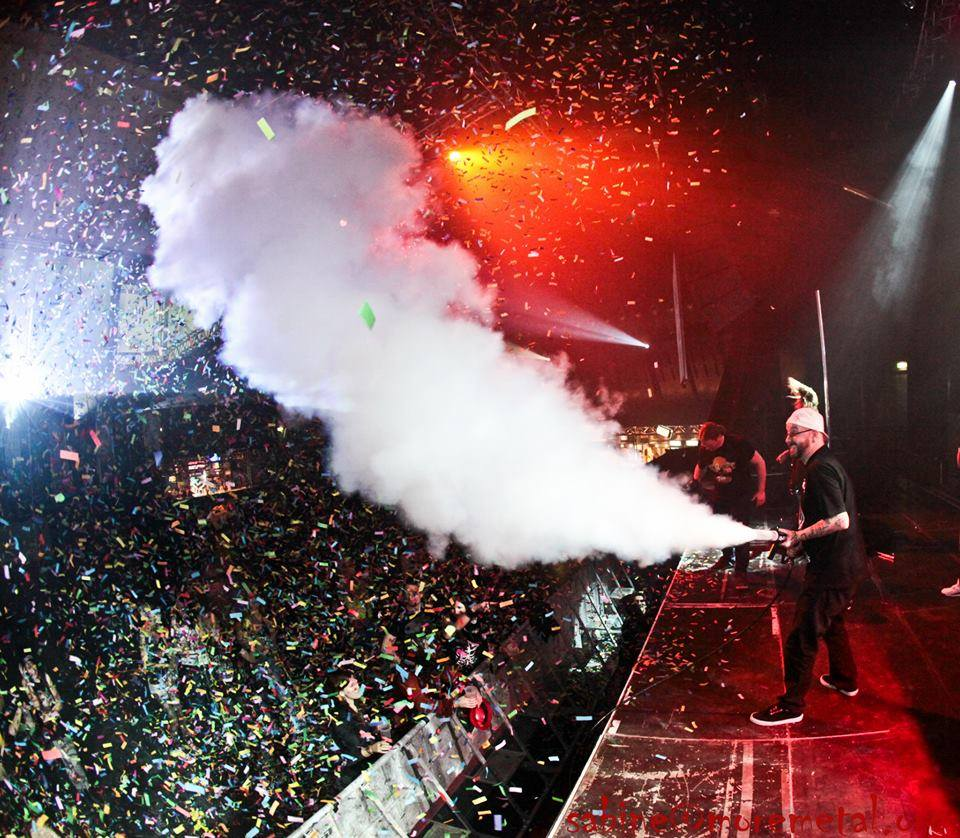 Rokko Ramirez using his CO2 Gun